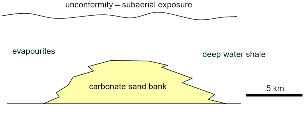 MVT Deposits